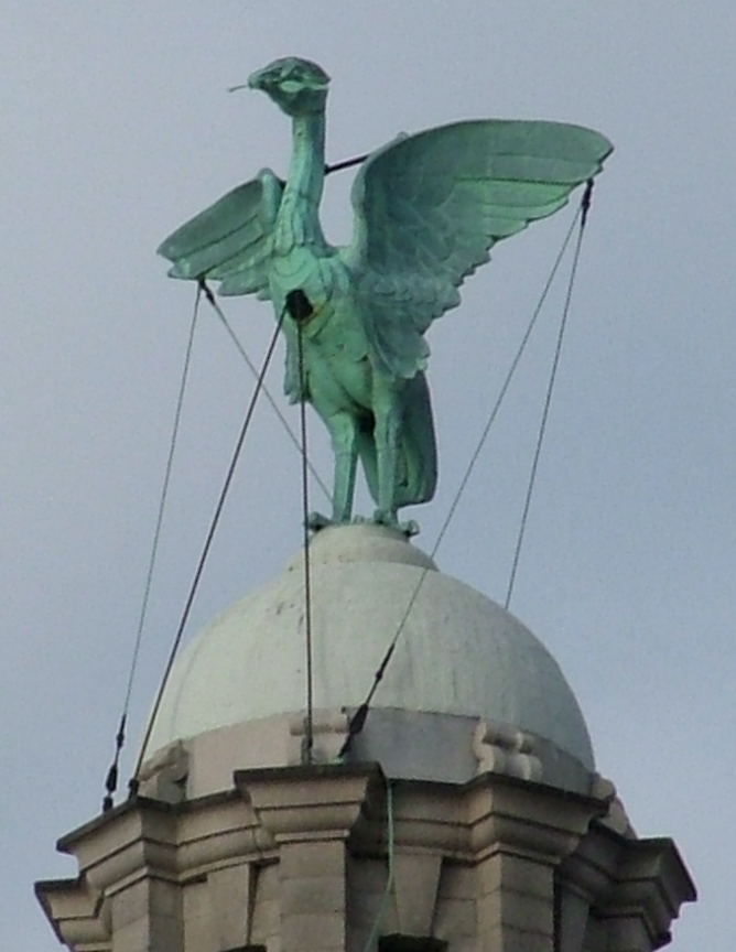 Liver Bird on a tower of the Liver Building. Liver Bird on a tower of the Liver Building the Symbol of our great city.